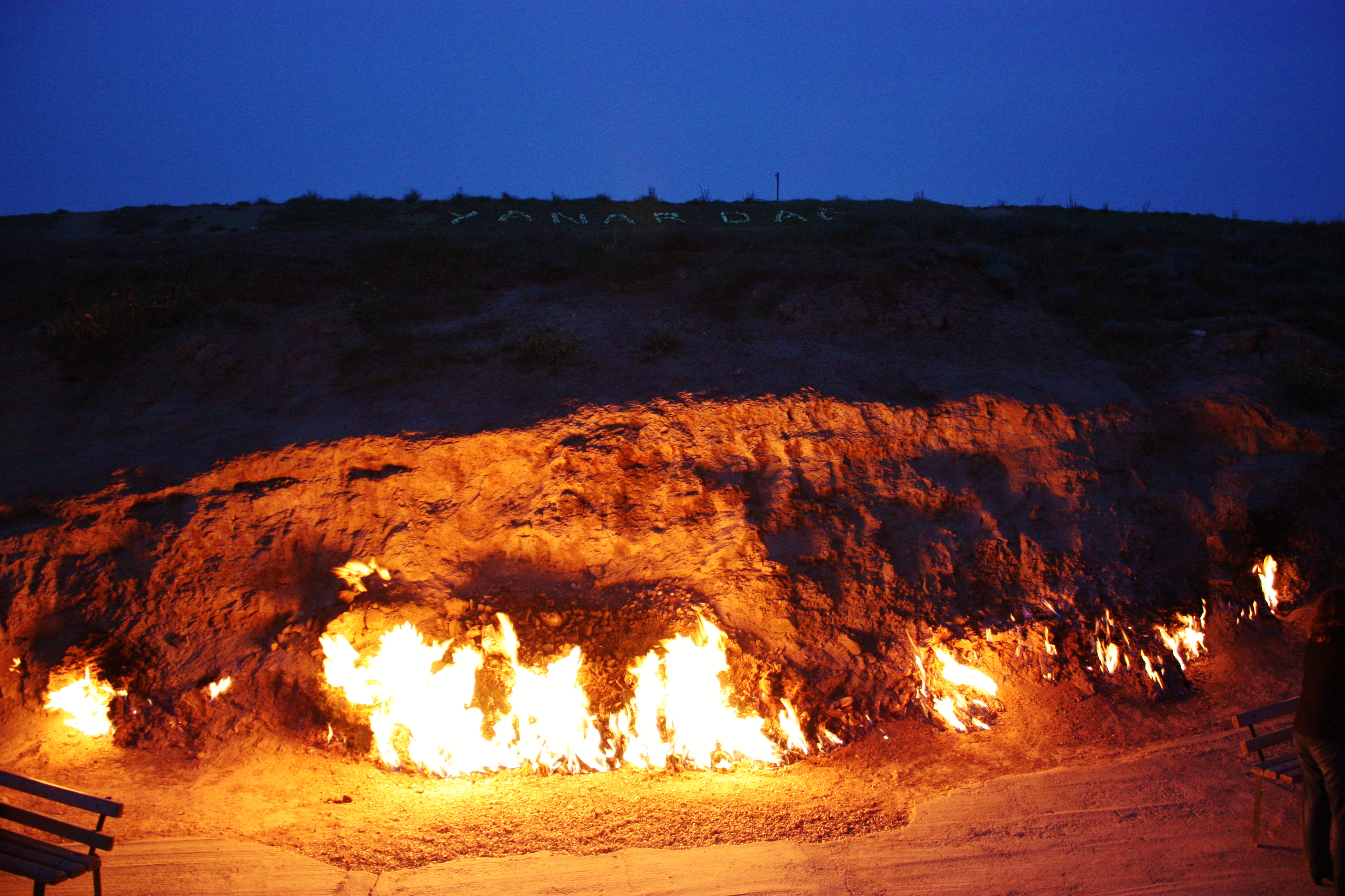 Yanar Dagh in the evening.